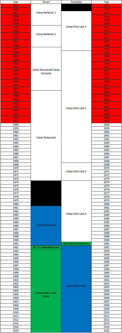 Chart depicting summer camps in the Pennsylvania villages of Orson and Poyntelle, for inclusion in respective articles on those villages.